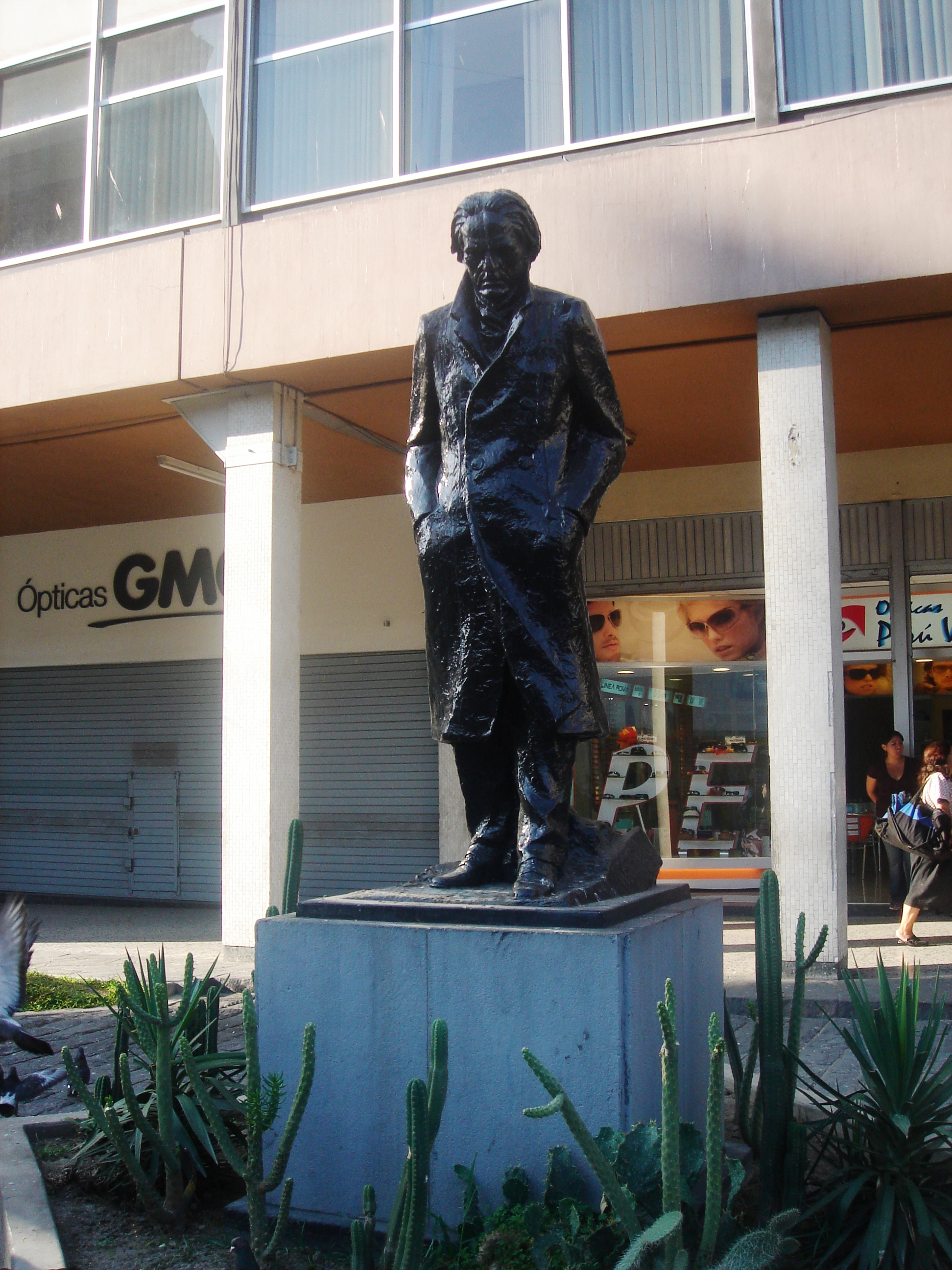 Monument to the poet César Vallejo by Peruvian sculptor Miguel Baca Rossi; Lima, Peru.